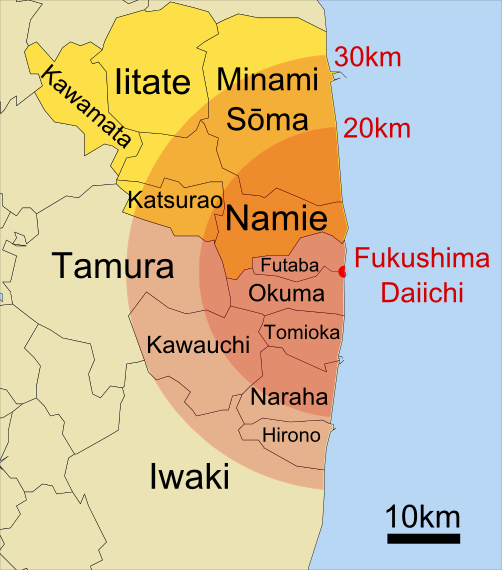 Localisation of towns NW of Fukushima Daiichii whose evacuation has been decided on April 11th, 2011